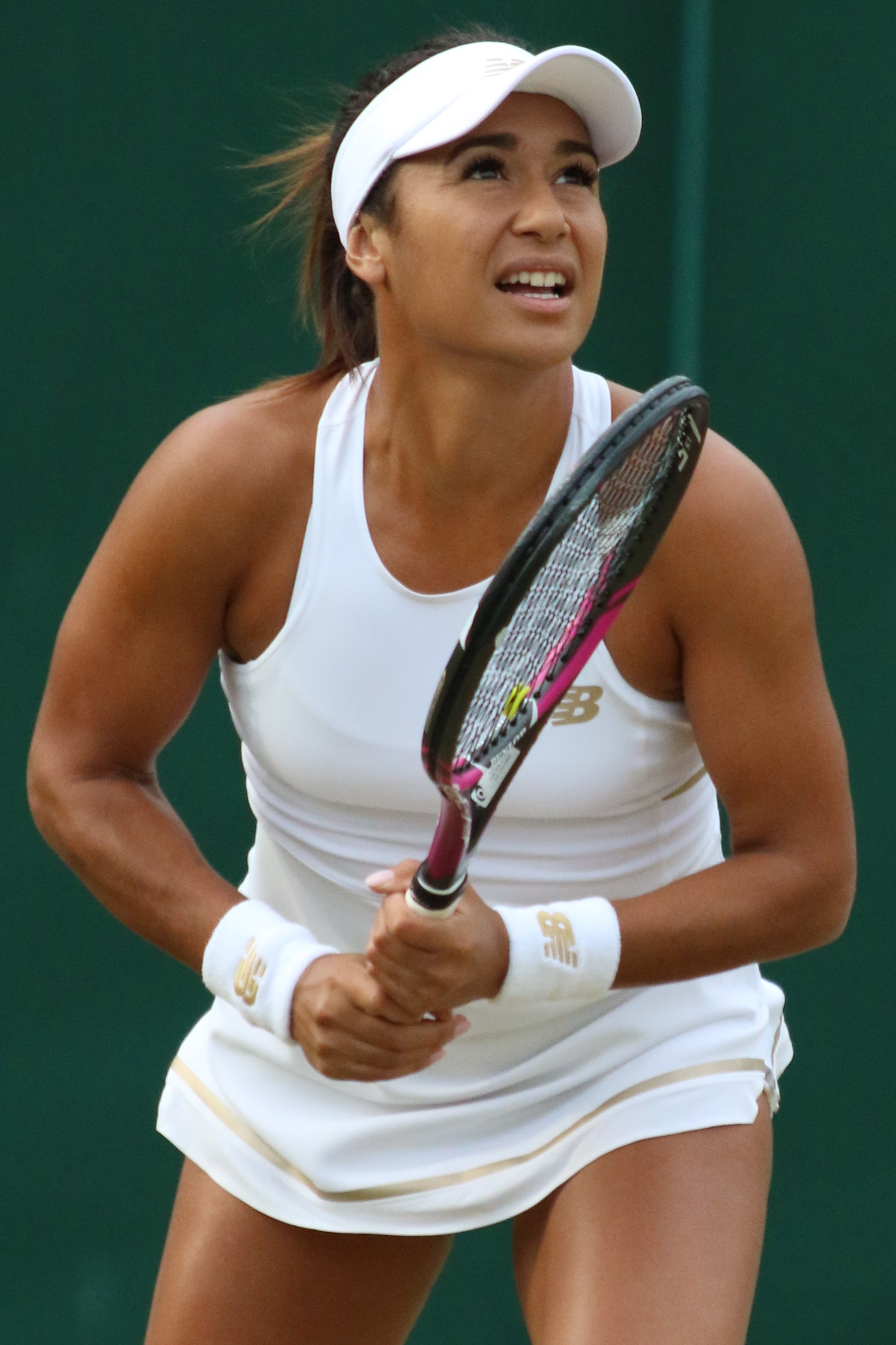 Watson WM19 (55)